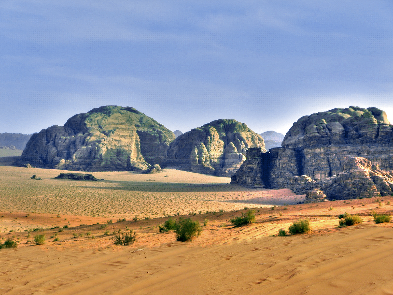 Wadi Rum